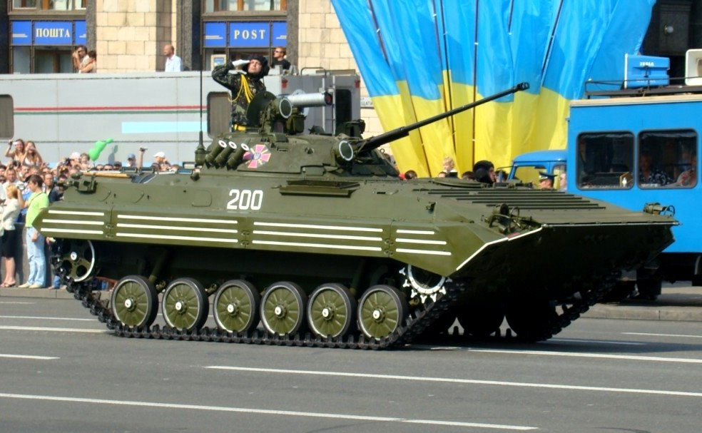 Ukrainian BMP-2 IFVs during the Independence Day parade in Kiev, Ukraine in 2008.